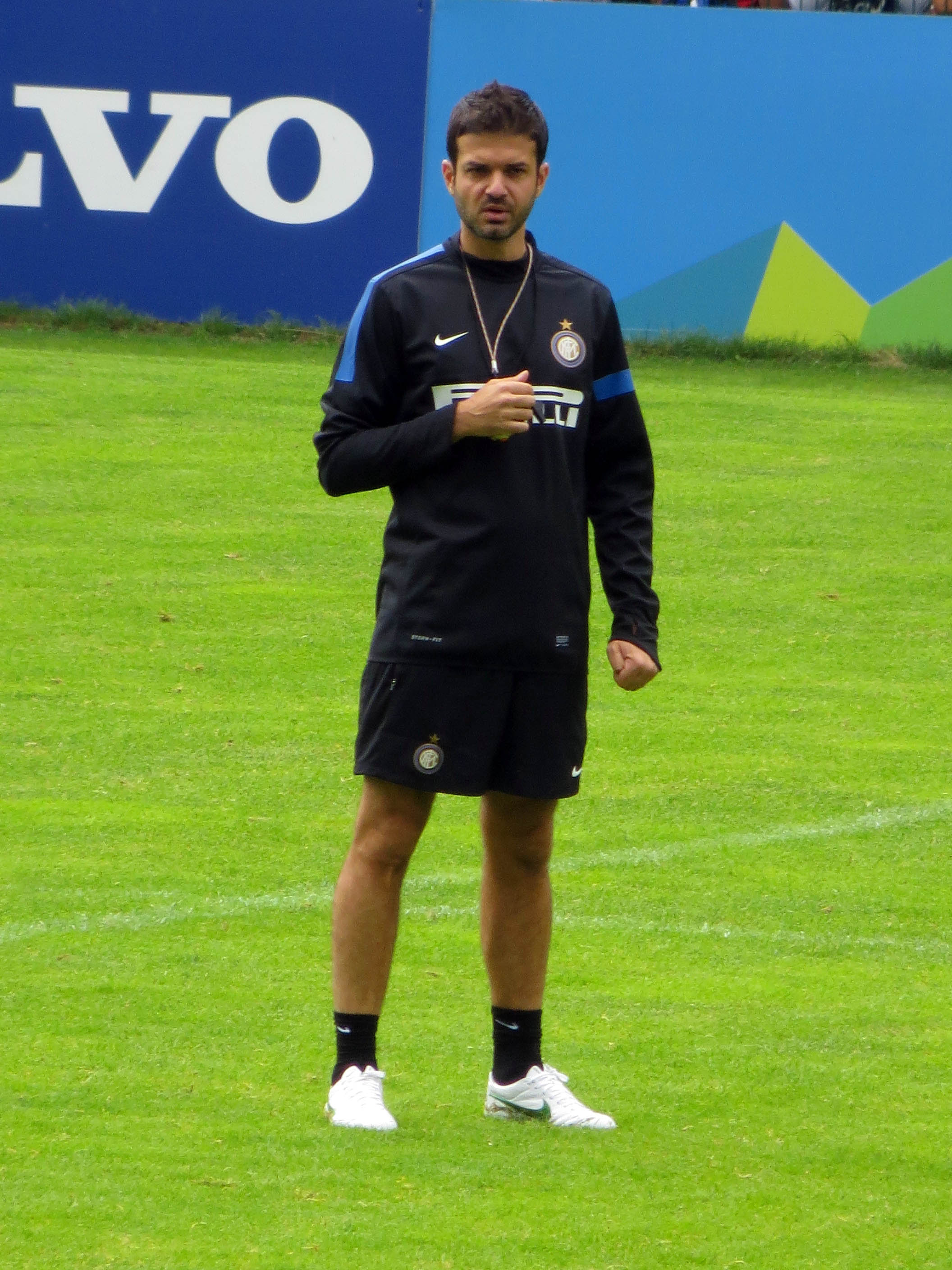 Andrea Stramaccioni, coach of Inter Milan